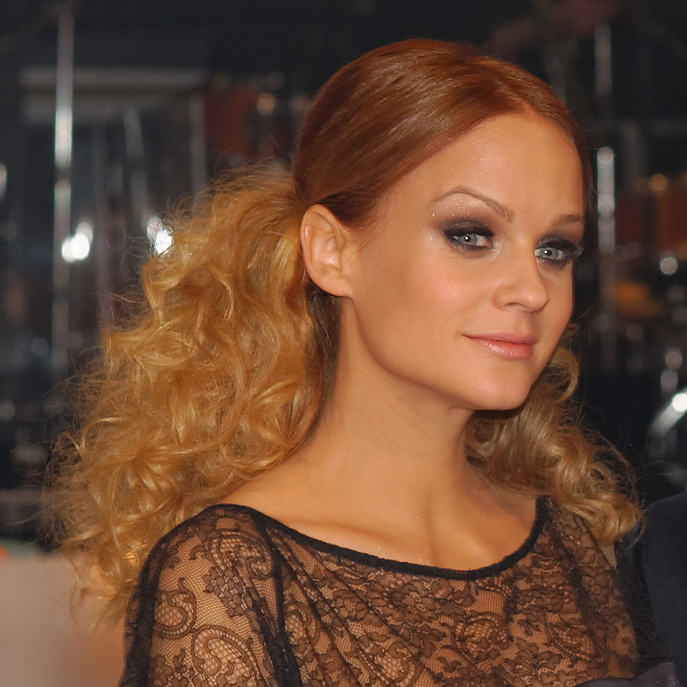 "Dancing Stars" am 5. April 2013 The making of this work was supported by Wikimedia Austria. For other files made with the support of Wikimedia Austria, please see the category Supported by Wikimedia Österreich. Mirjam Weichselbraun